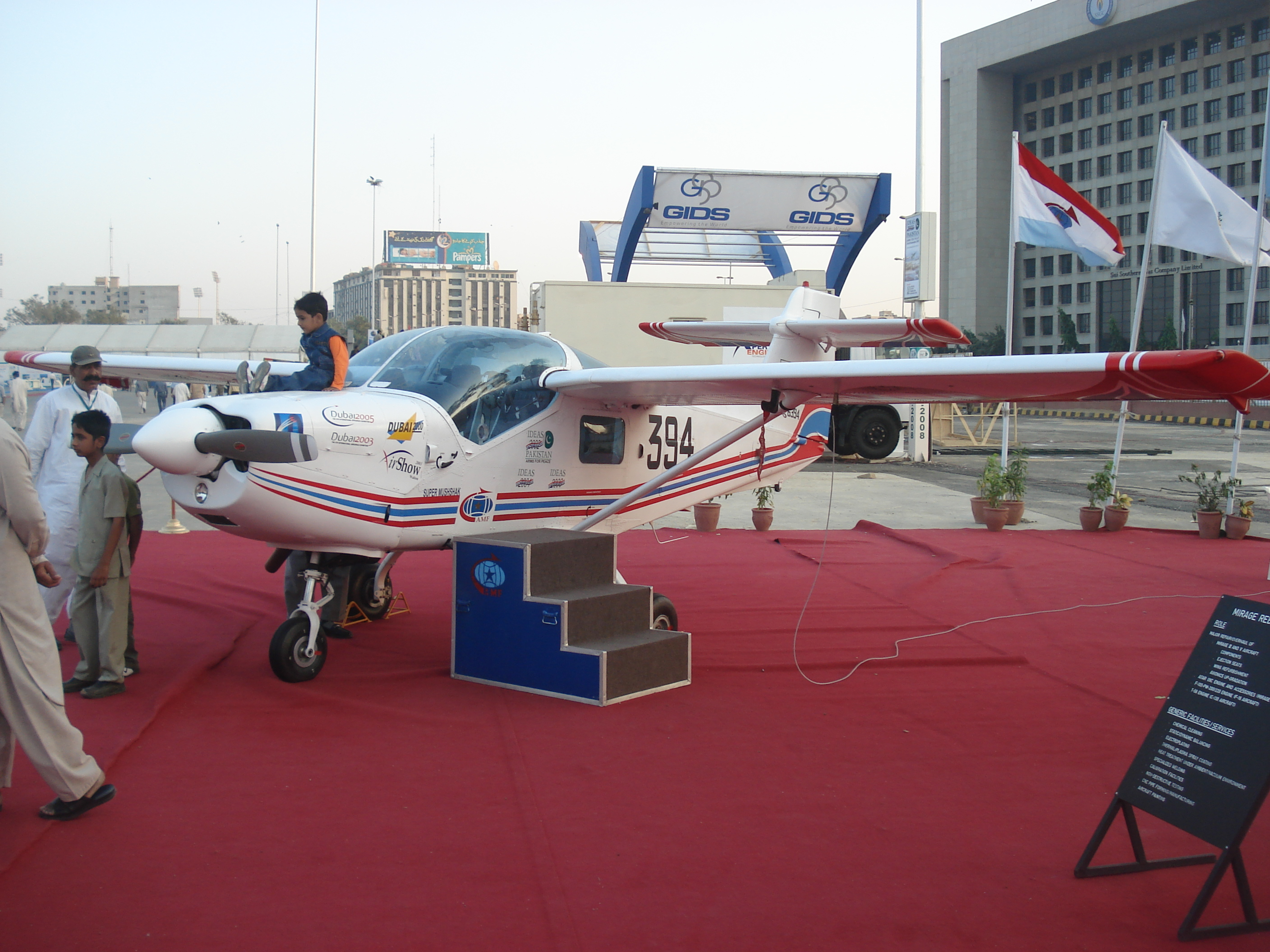 A Mushak (MFI-17 Mushshak) at IDEAS 2008